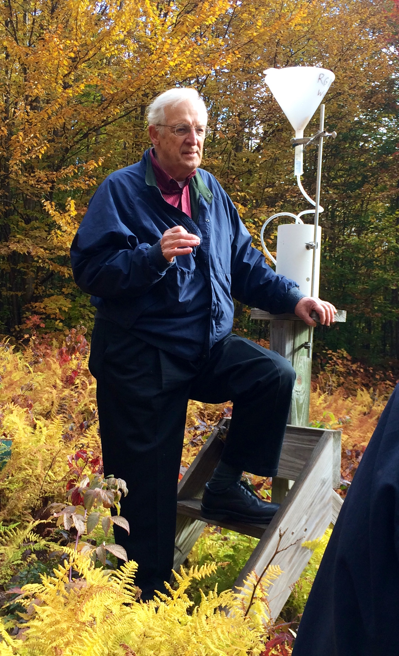 Photograph of Gene Likens, American limnologist and ecologist, at Hubbard Brook Experimental Forest.